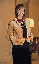 Mora Furtado- modelo y actriz argentina